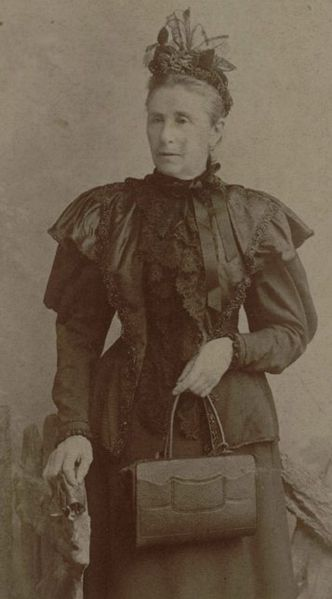 Photograph of Amalia Freud